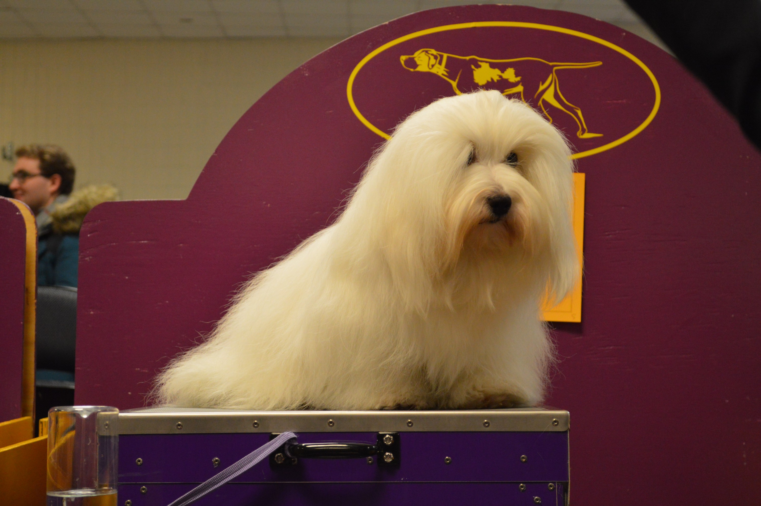 TERMS OF USE: You must link directly to our website, rather than Flickr if you use this photo. Thanks for your cooperation. 2015 Westminster Kennel Club Dog Show, New York City.